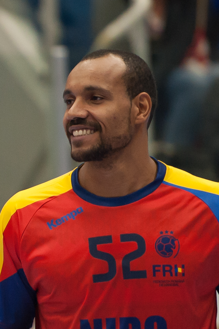 2017 Men's World Championship Qualification Europe Round 1, Austria vg. Romania, Maria Enzersdorf, Lower Austria, 2015-11-04